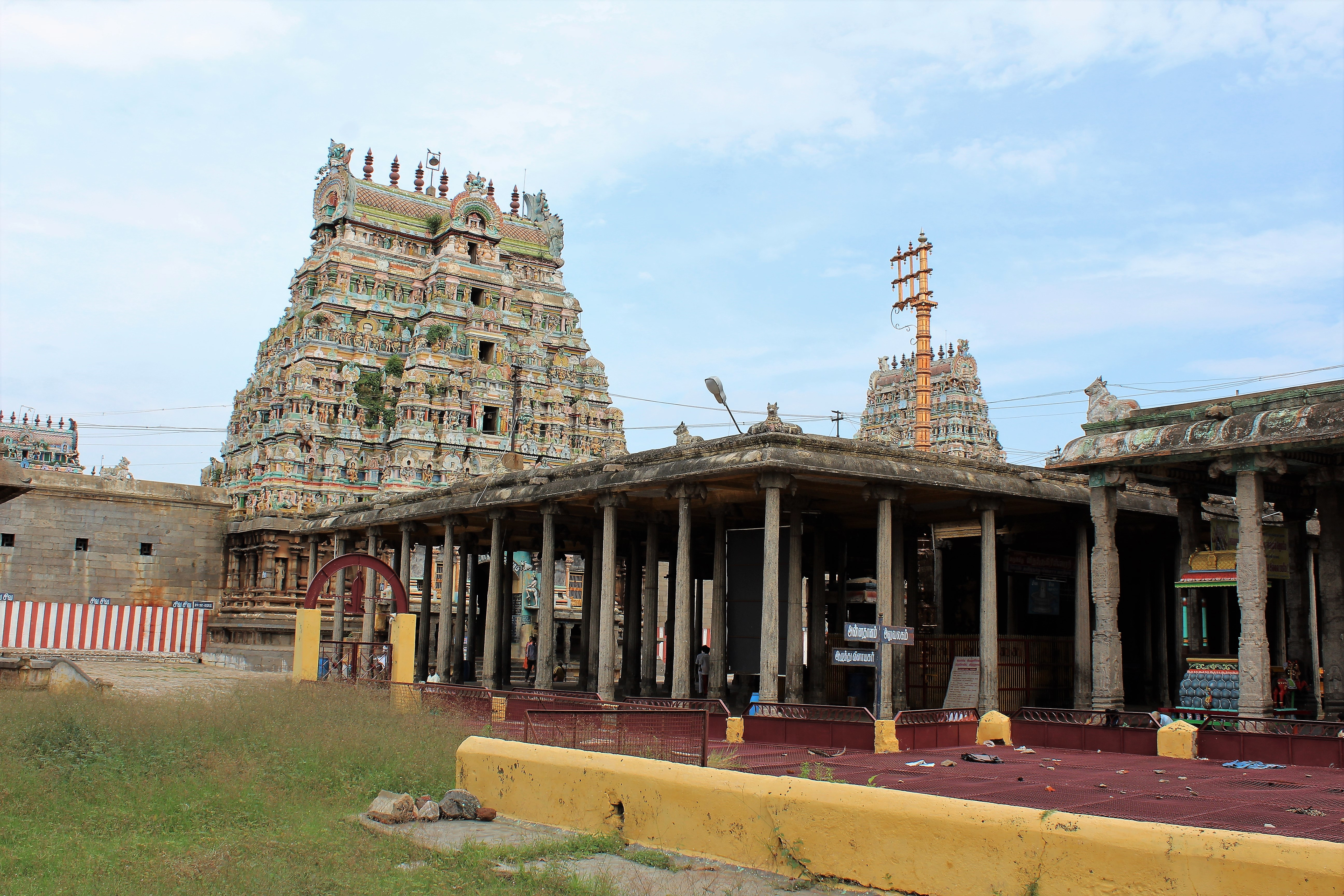 Virudhagiriswarar temple, Viruthachalam